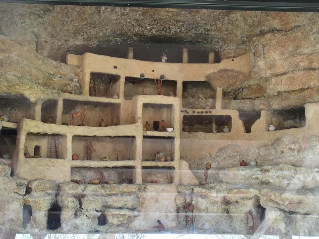 Display which shows how the Pre-Columbian Sinagua people lived in Montezuma Castle, a historic cliff dwelling located in Montezuma Castle National Monument near Camp Verde, Arizona. The display and its contents are the work of an employee of the Bureau of Land Management. Montezuma Castle National Monument is listed in the National Register of Historic Places, reference #66000082. The display and its contents are the work of an employee of the Bureau of Land Management.